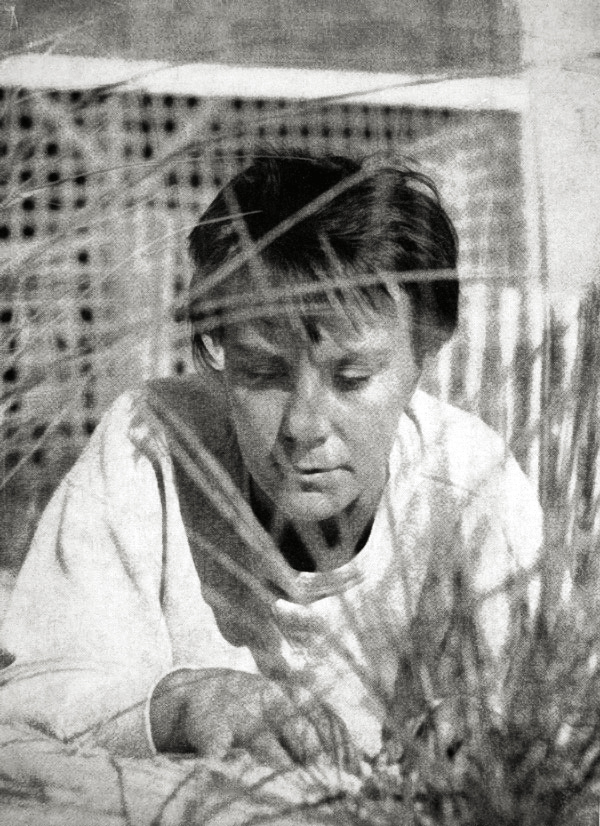 Truman Capote's photo portrait of Harper Lee from the back cover of the first-edition dust jacket for Lee's novel To Kill a Mockingbird.